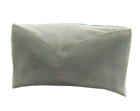 The Šajkača (Serbian Cyrillic: шајкача) is the Serbian national hat or cap.